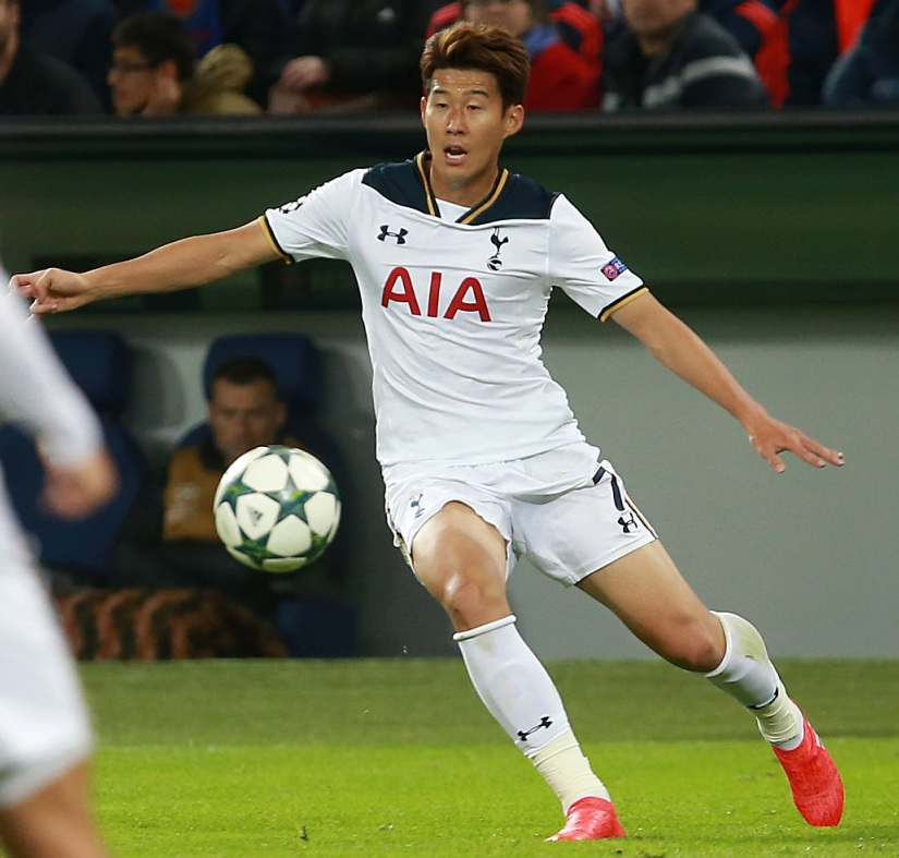 Son Heung-min in action for Tottenham Hotspurs FC in a game against PFC CSKA Moscow.